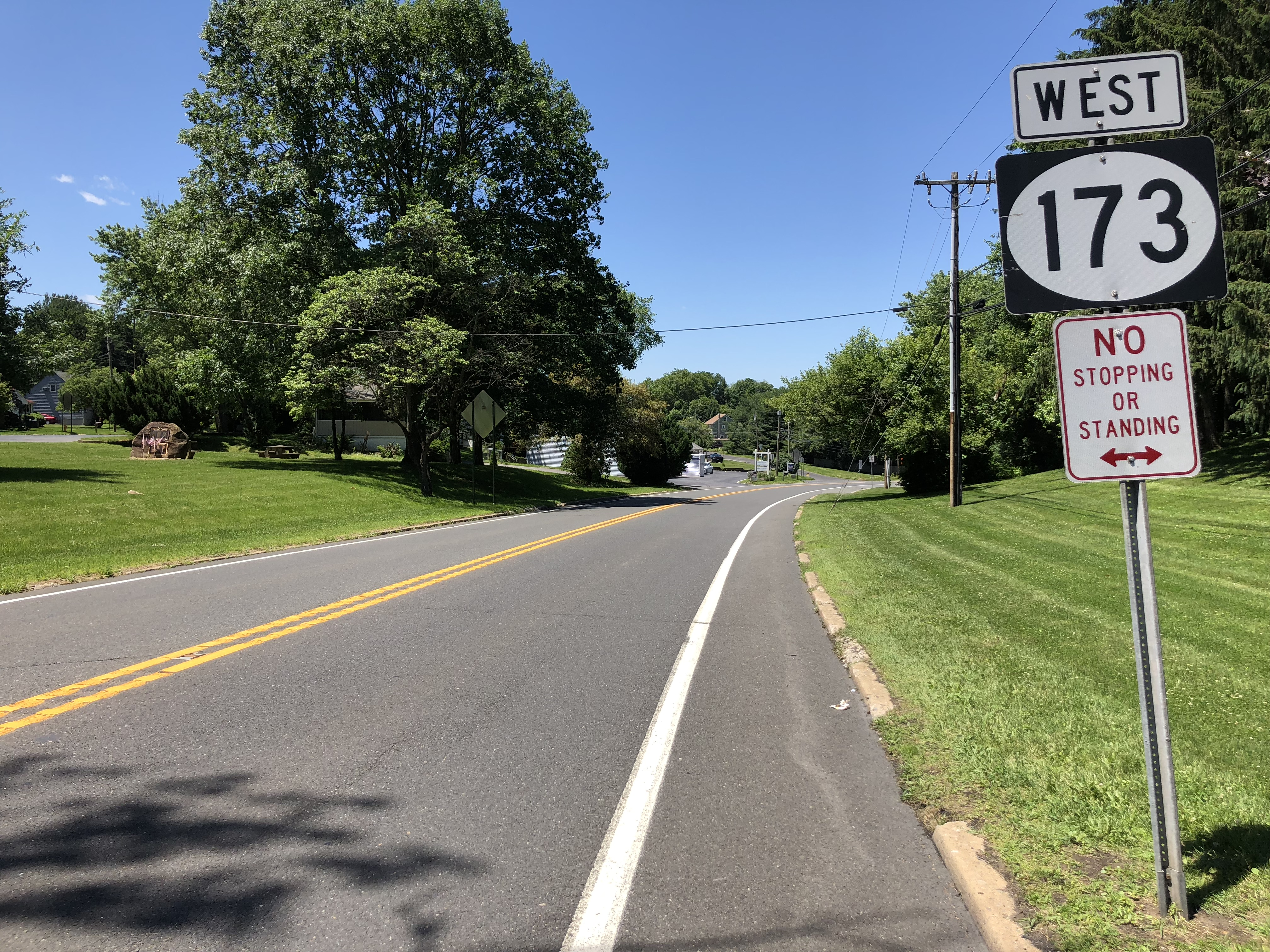 View west along New Jersey State Route 173 at Main Street in Bloomsbury, Hunterdon County, New Jersey